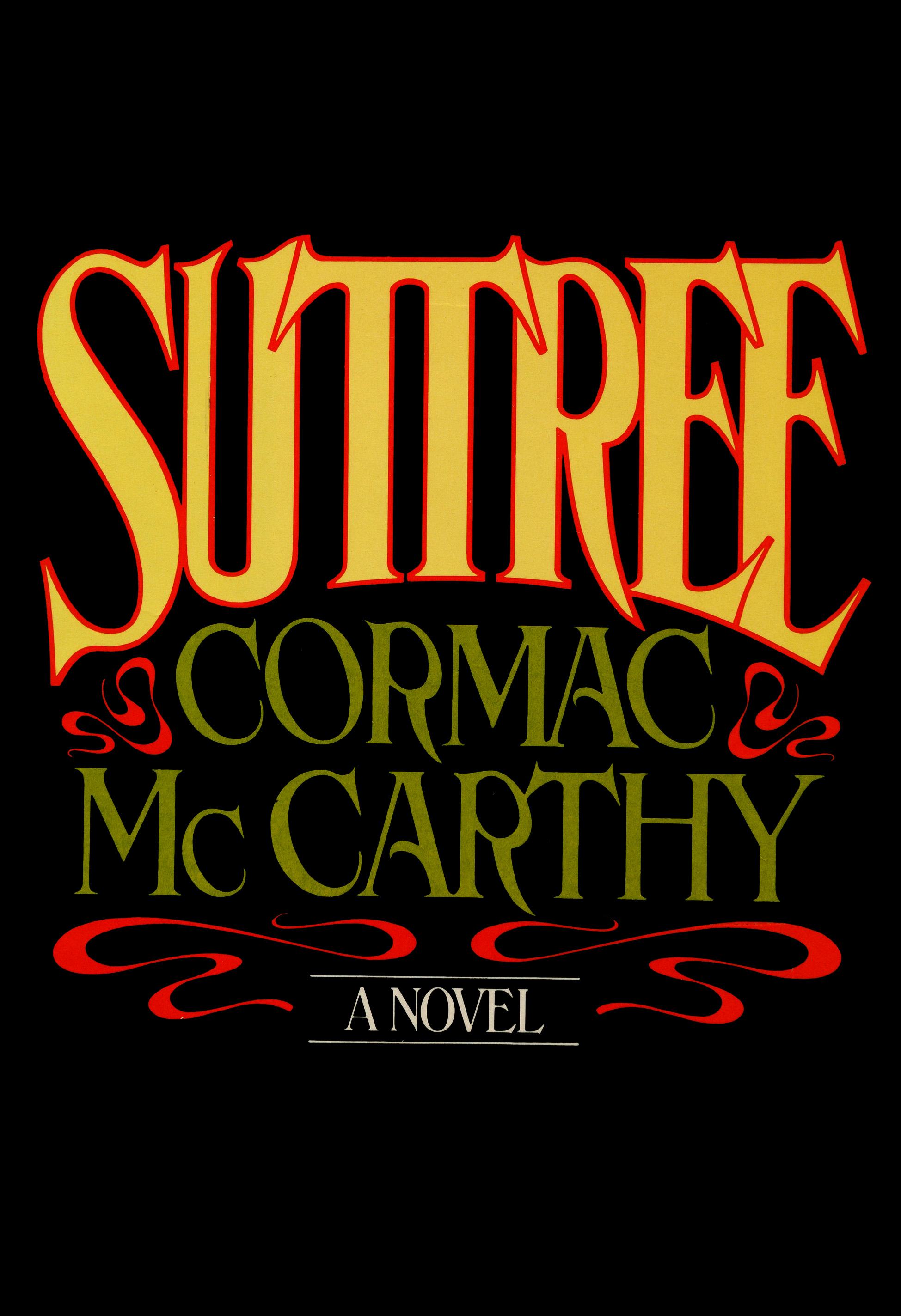 Cover of Suttree, the fourth novel by American author Cormac McCarthy.